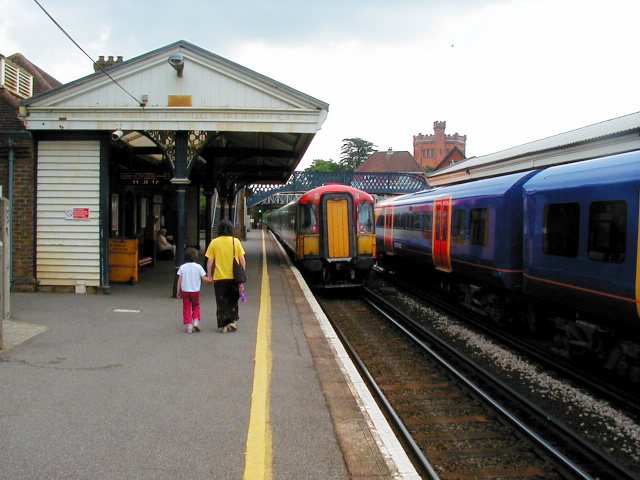 New Milton Station A Waterloo train departing